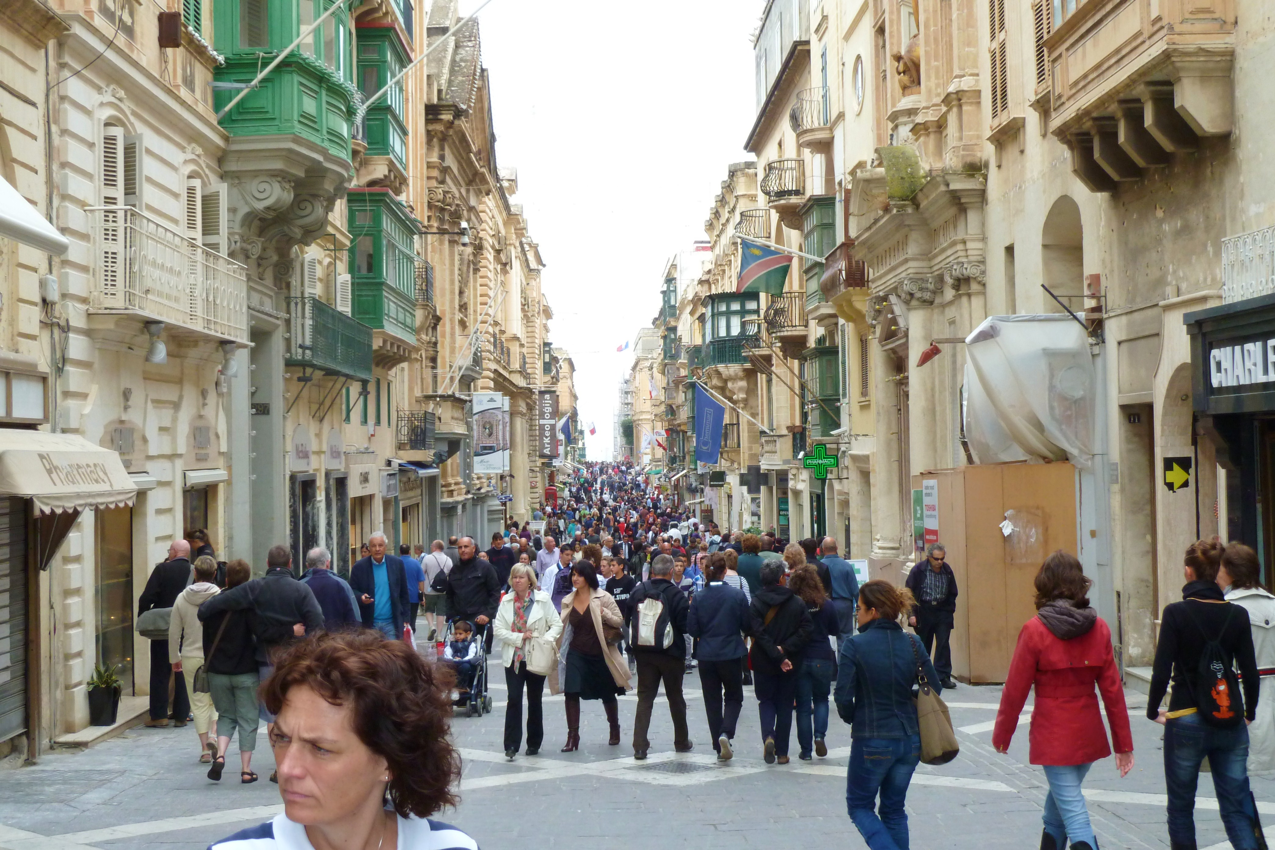 Republic Street, the main axis and the main shopping street in Valletta (Malta).